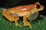 Anurans from the RPPN Serra Bonita, Bahia State, Northeastern Brazil. a Bokermannohyla circumdata b B. lucianae c Dendropsophus anceps d D. bipunctatus e D. elegans f D. novaisi g D. giesleri h D. haddadi i D. minutus j Hypsiboas faber l H. semilineatus m Itapotihyla langsdorffii n Phasmahyla spectabilis o Phyllodytes wuchereri and p Phyllodytes sp. 1.